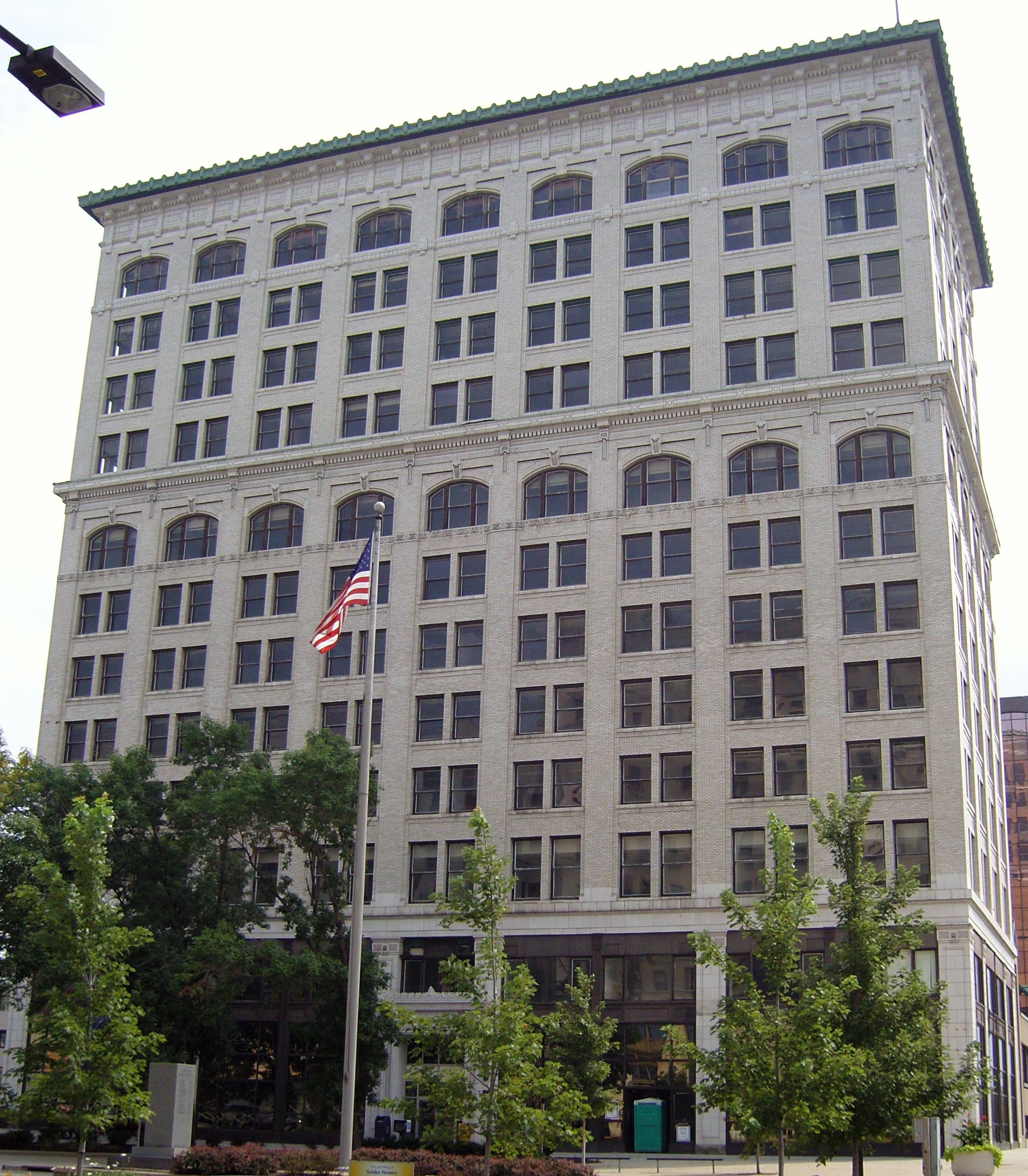 Henry H. Stambaugh Building, Youngstown, OH.